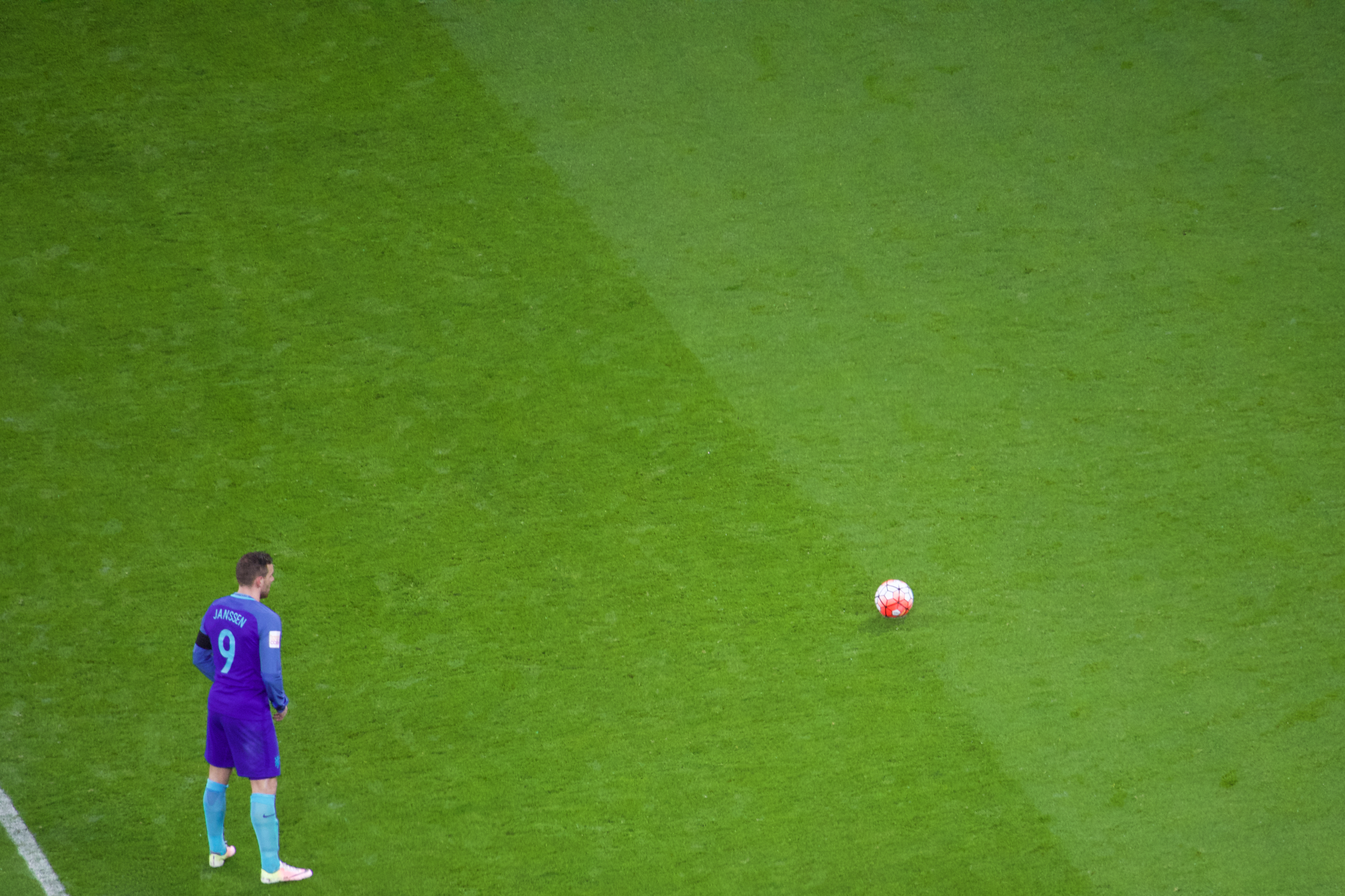 Vincent Janssen lining up to take a penalty against England at Wembley for the Netherlands.